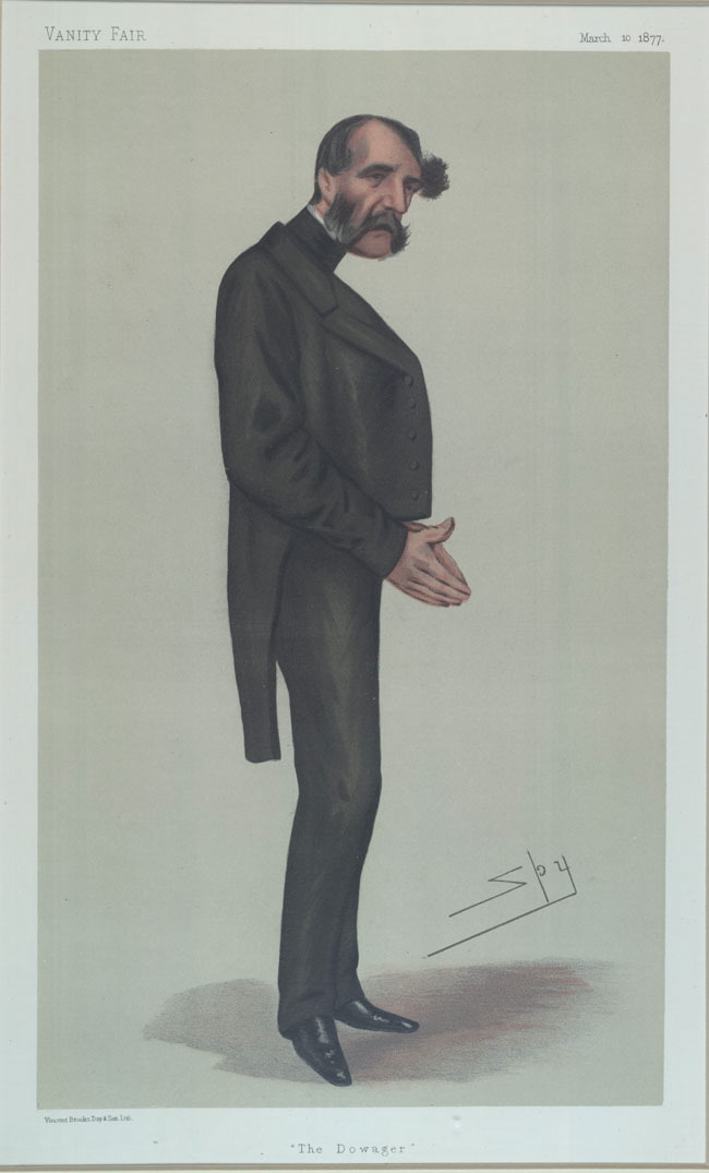 Statesmen No.244: Caricature of The Rt Hon Lord C Hamilton. Caption reads: "The Dowager"